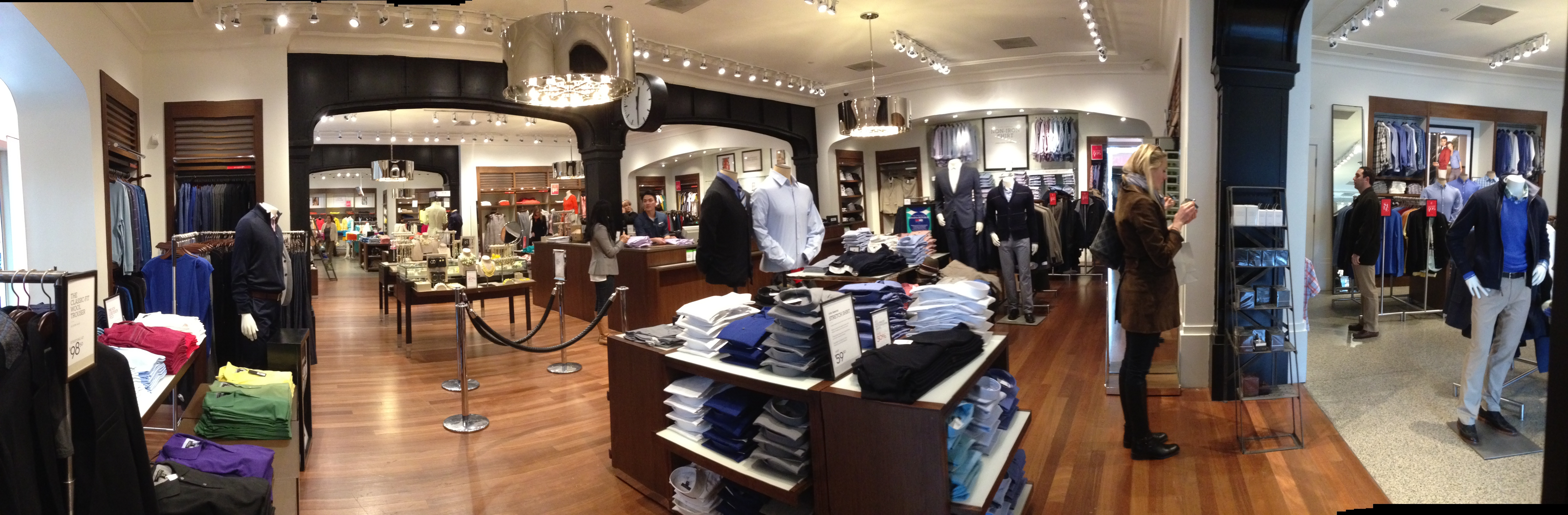 Banana Republic, 107 E 42nd St, New York, NY 10017, USA - Mar 2013